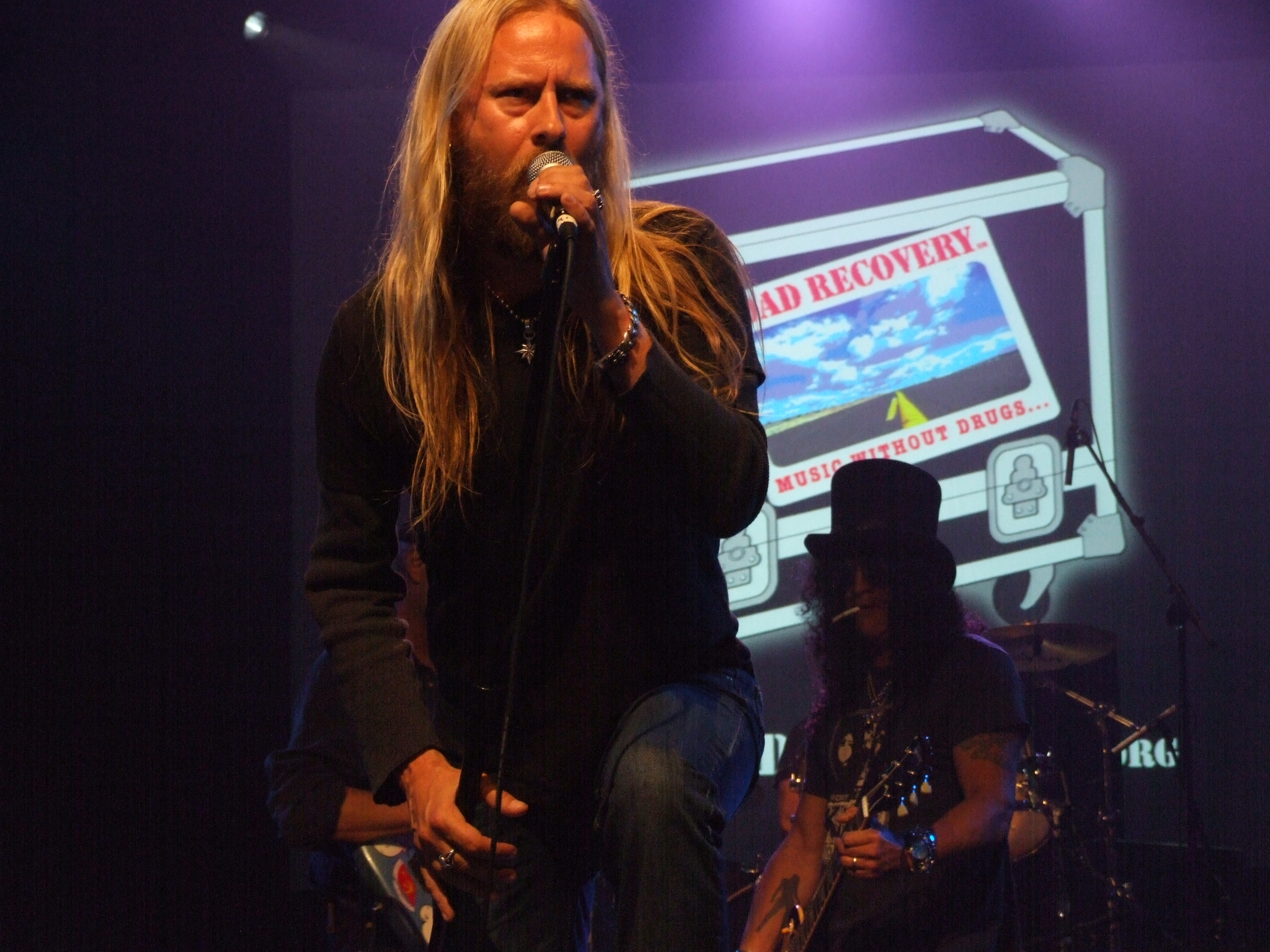 Jerry Cantrell and Slash live at Nightwatchman's Justice tour in the Nokia Theater, New York April 17 2008. from Flickr album "Justice Tour: Road Recovery, New York, New York" by Scott Penner from Ottawa, Canada